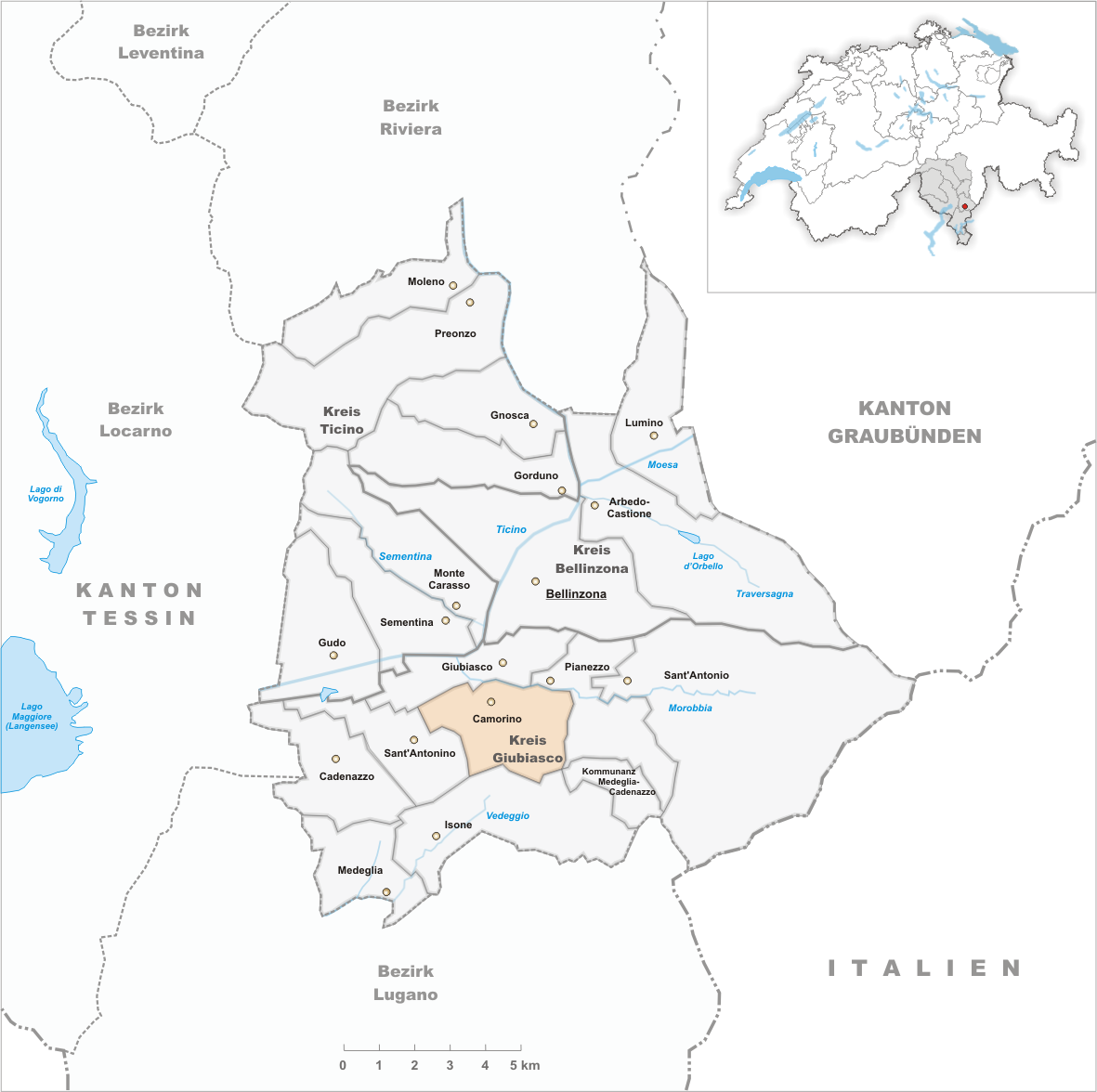 Municipality Camorino